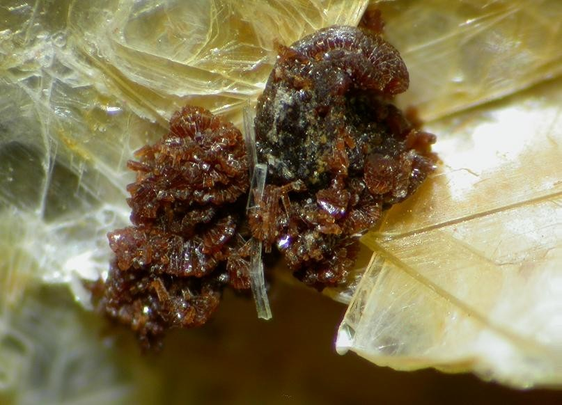 Greifensteinite Locality: Gentil claim, Mendes Pimentel, Doce valley, Minas Gerais, Southeast Region, Brazil Field of view 4 mm. Specimen and photo Leon Hupperichs.